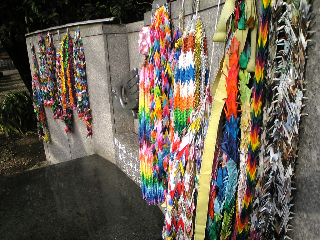 Toshogu shrine Eternal peace flame